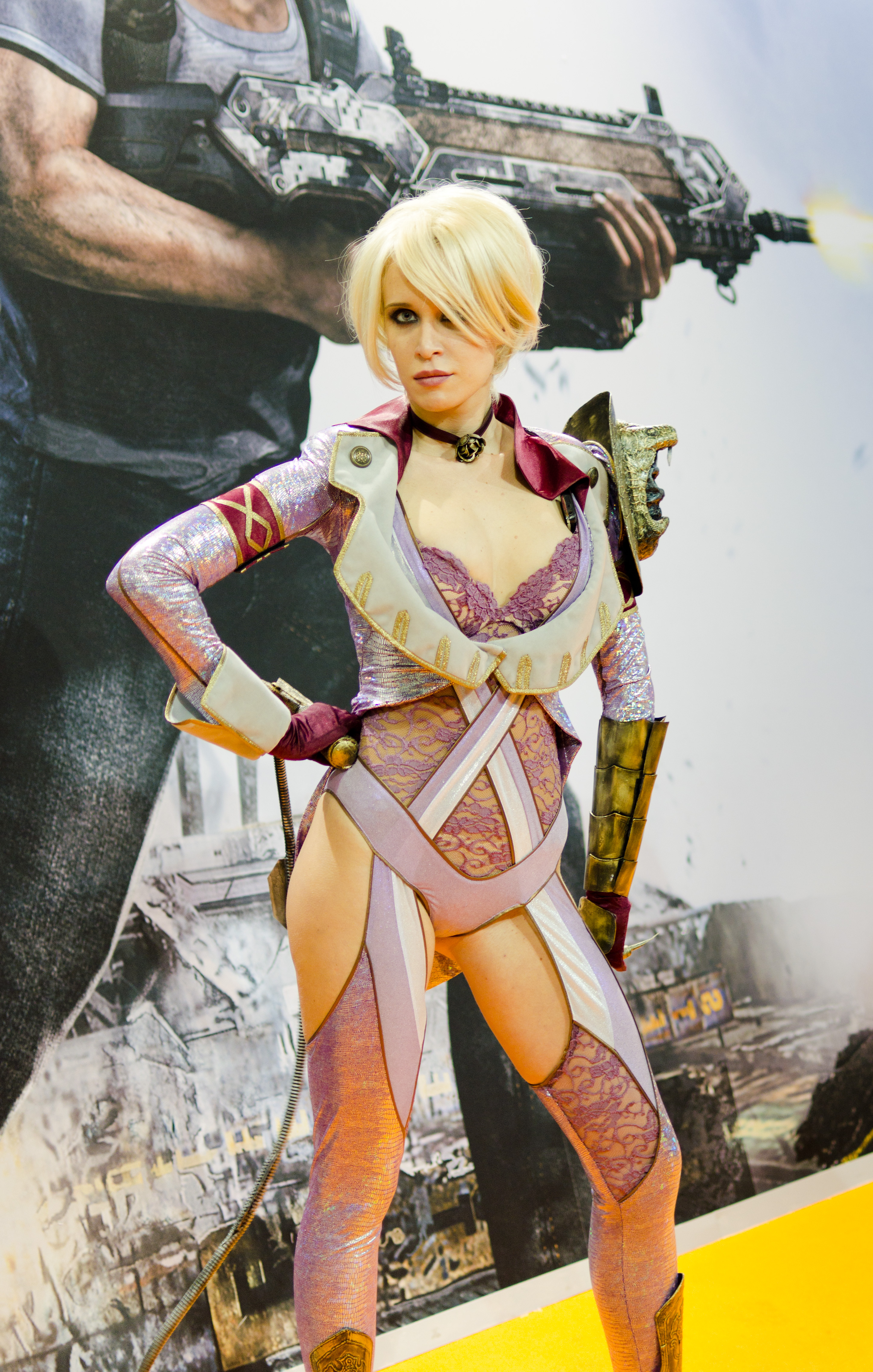 Ivy at Igromir 2011